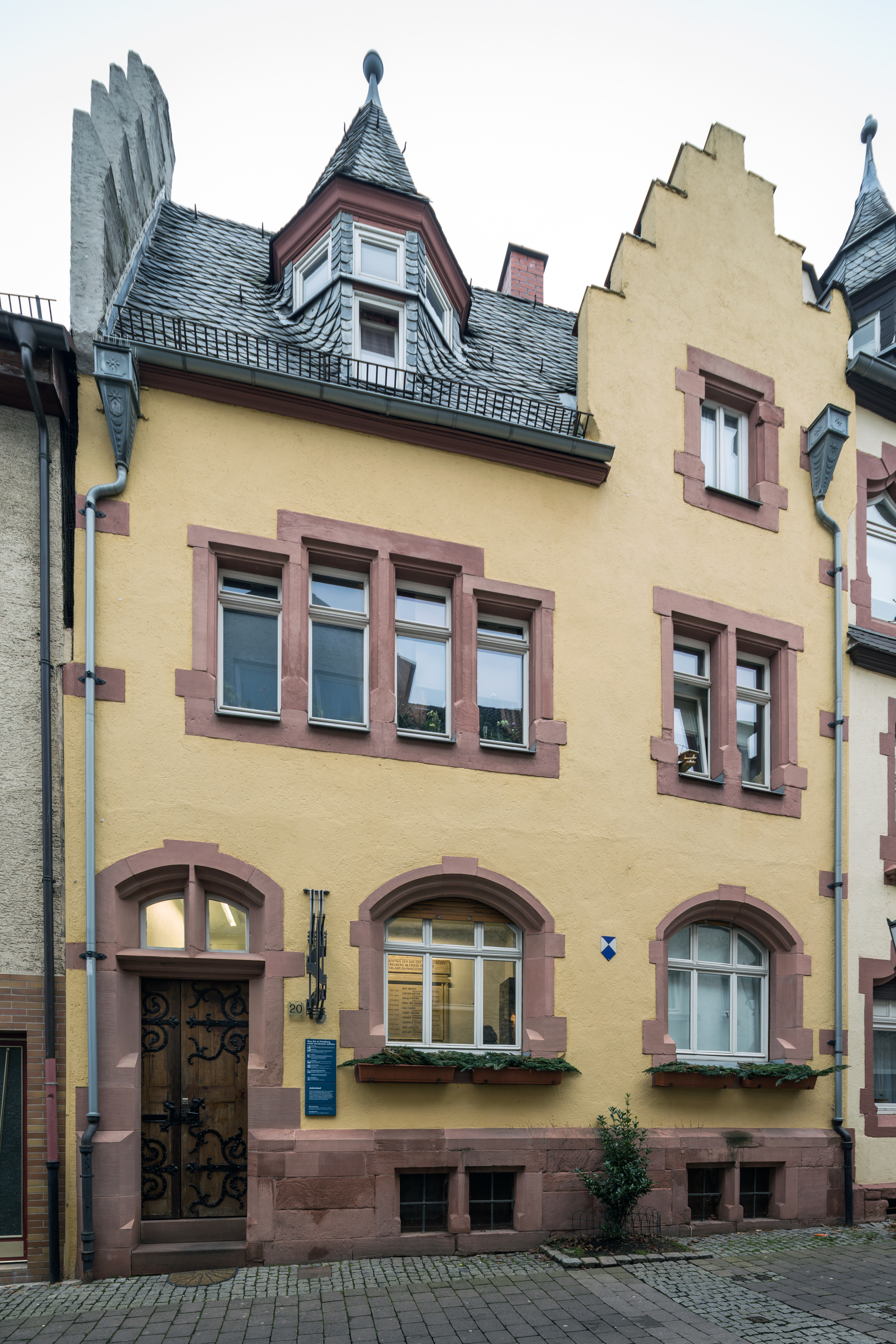 Friedberg (Hesse): Judengasse (Jews Lane) 20 as seen from the northwest